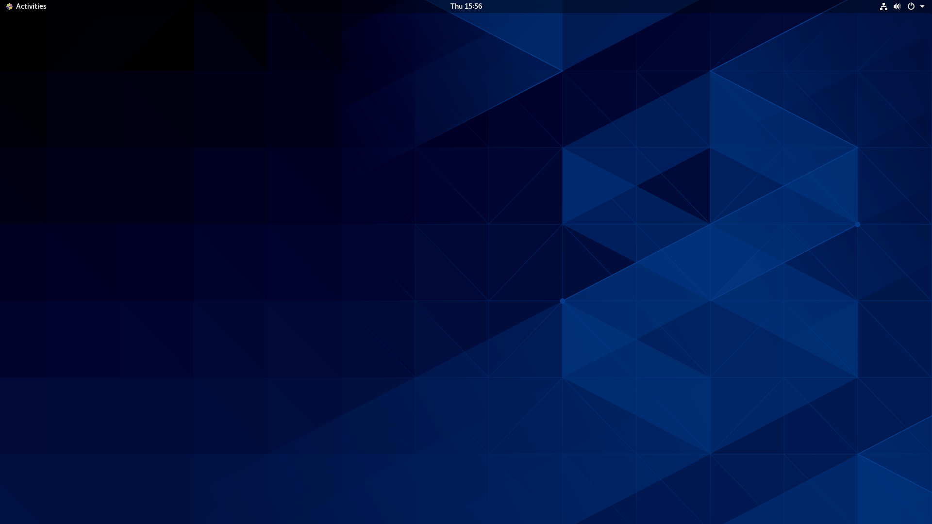 Screenshot of CentOS 8.0 1905 with GNOME 3.28.2